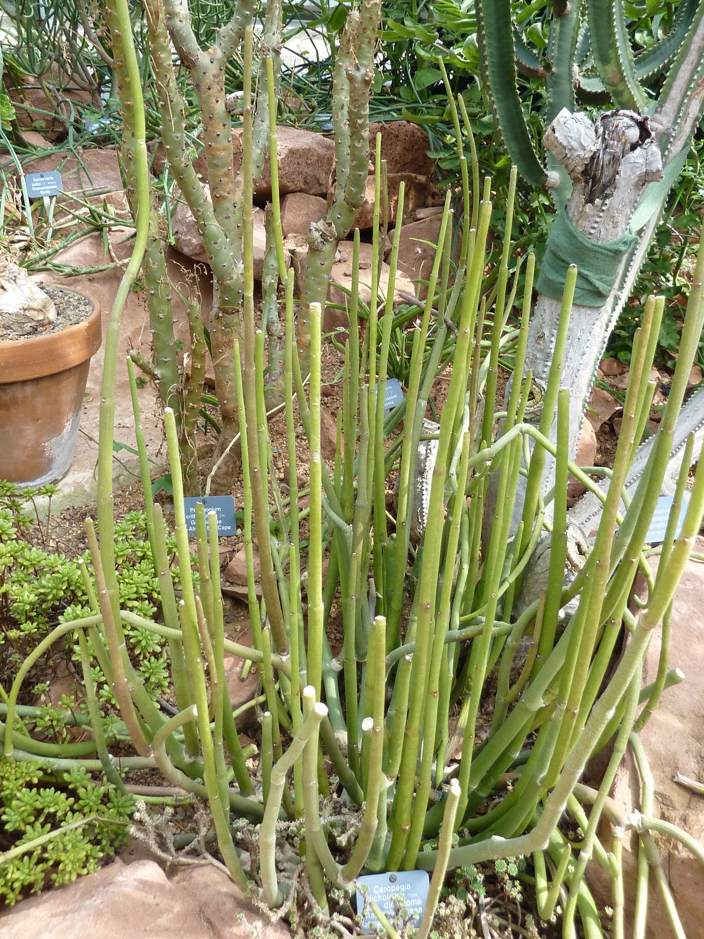 Ceropegia dichotoma at the Botanical Garden of the University of Basel.